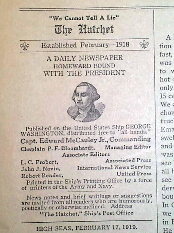 Masthead of The Hatchet, a shipboard newspaper on the SS George Washington in 1919 as it returned U.S. President Woodrow Wilson across the Atlantic Ocean to the United States. February 17, 1919. Store Web page states: Wilson "reembarked on George Washington on February 15, 1919 to return to the United States. It was during this trip that this newspaper was published."